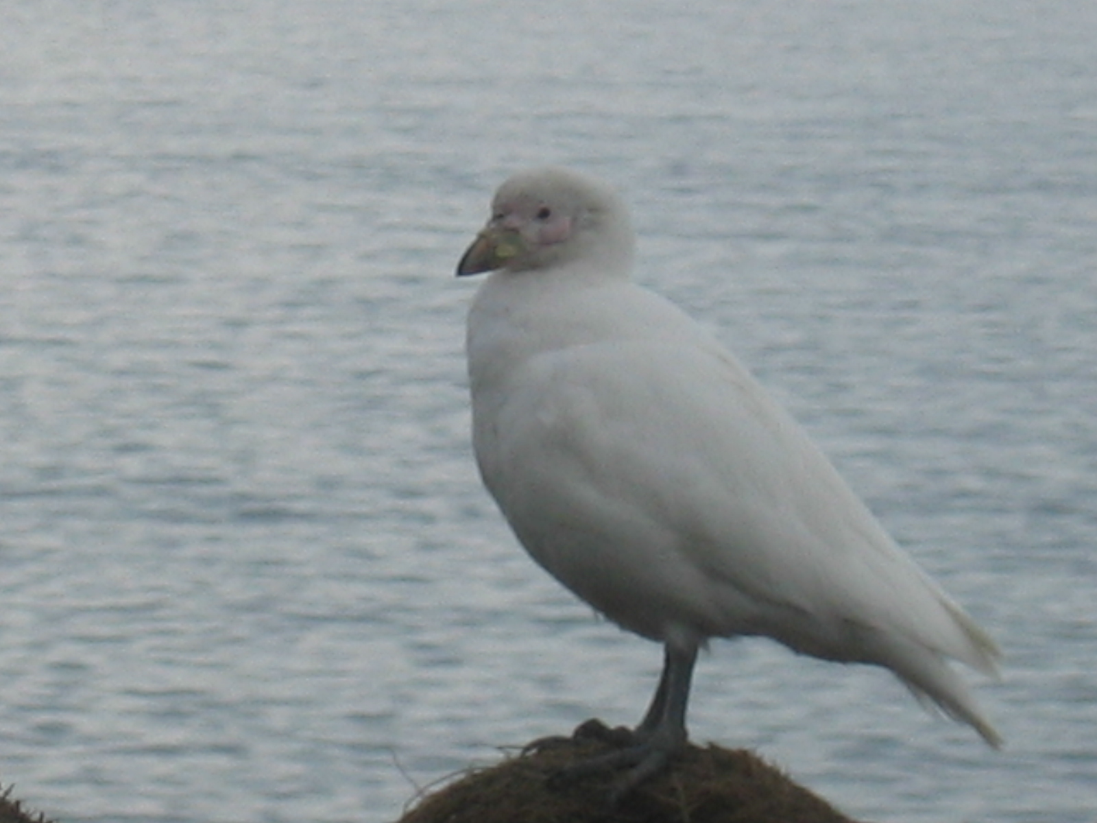 Chionis alba at Gold Harbour at South Georgia